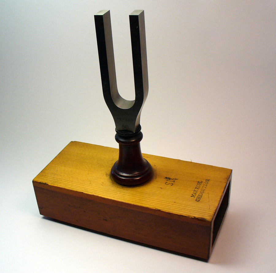 Tuning fork (Diapason) on resonance box, by Max Kohl, Chemnitz, Germany. CWRU Physics Dept.